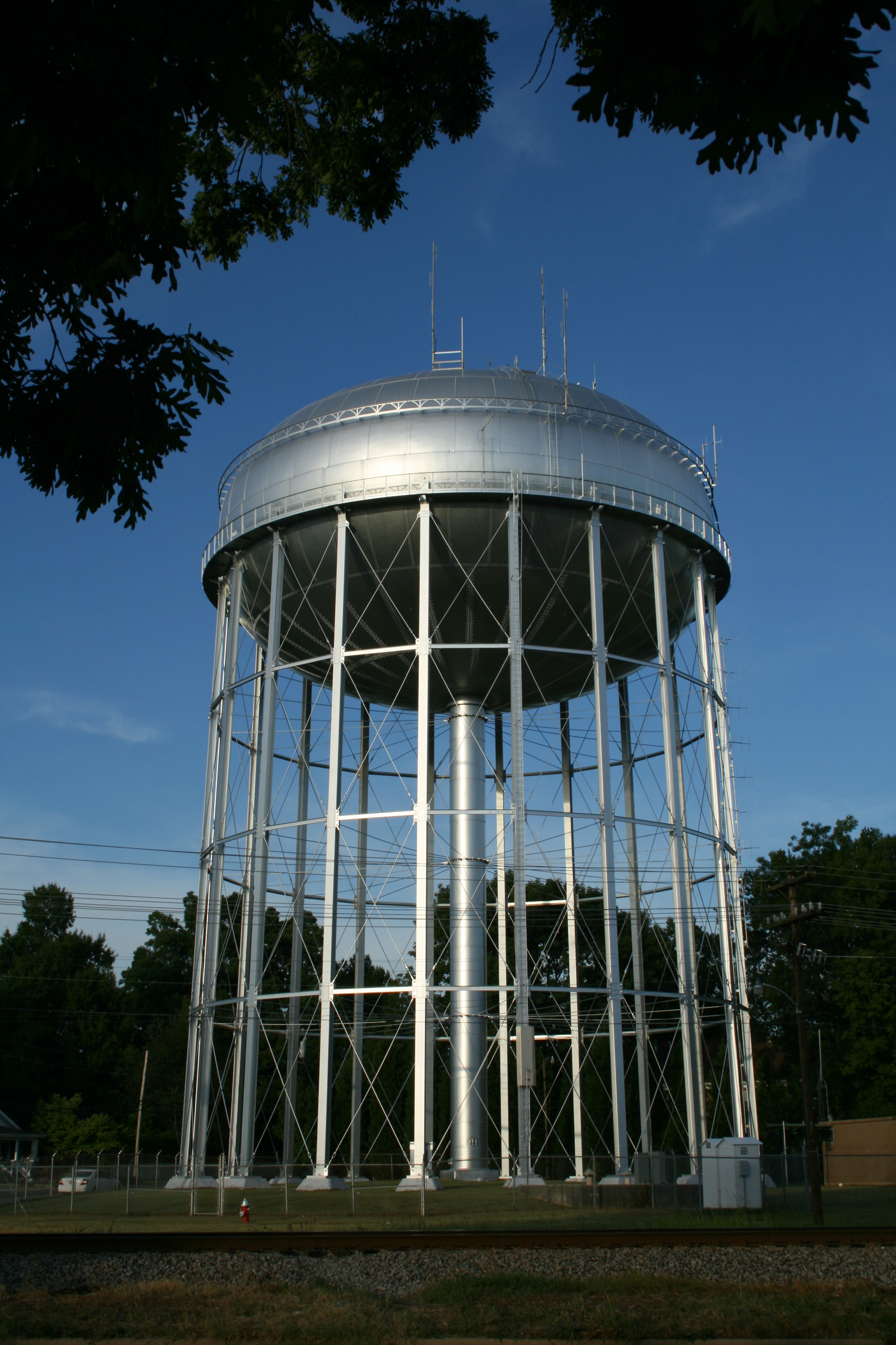 A water tower, viewed across the railroad, in Burlington, North Carolina.